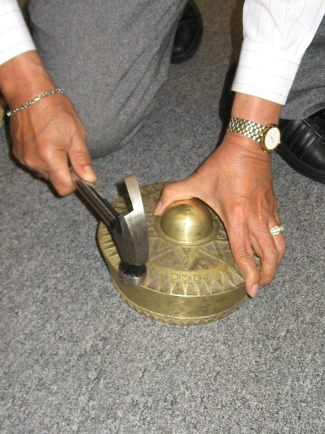 One of the eight Philippine horizontally laid, knobbed gongs known as the kulintang used as a main melodic instrument in the kulintang ensemble being tuned by Master Danongan Kalanduyan using the tongkol process.